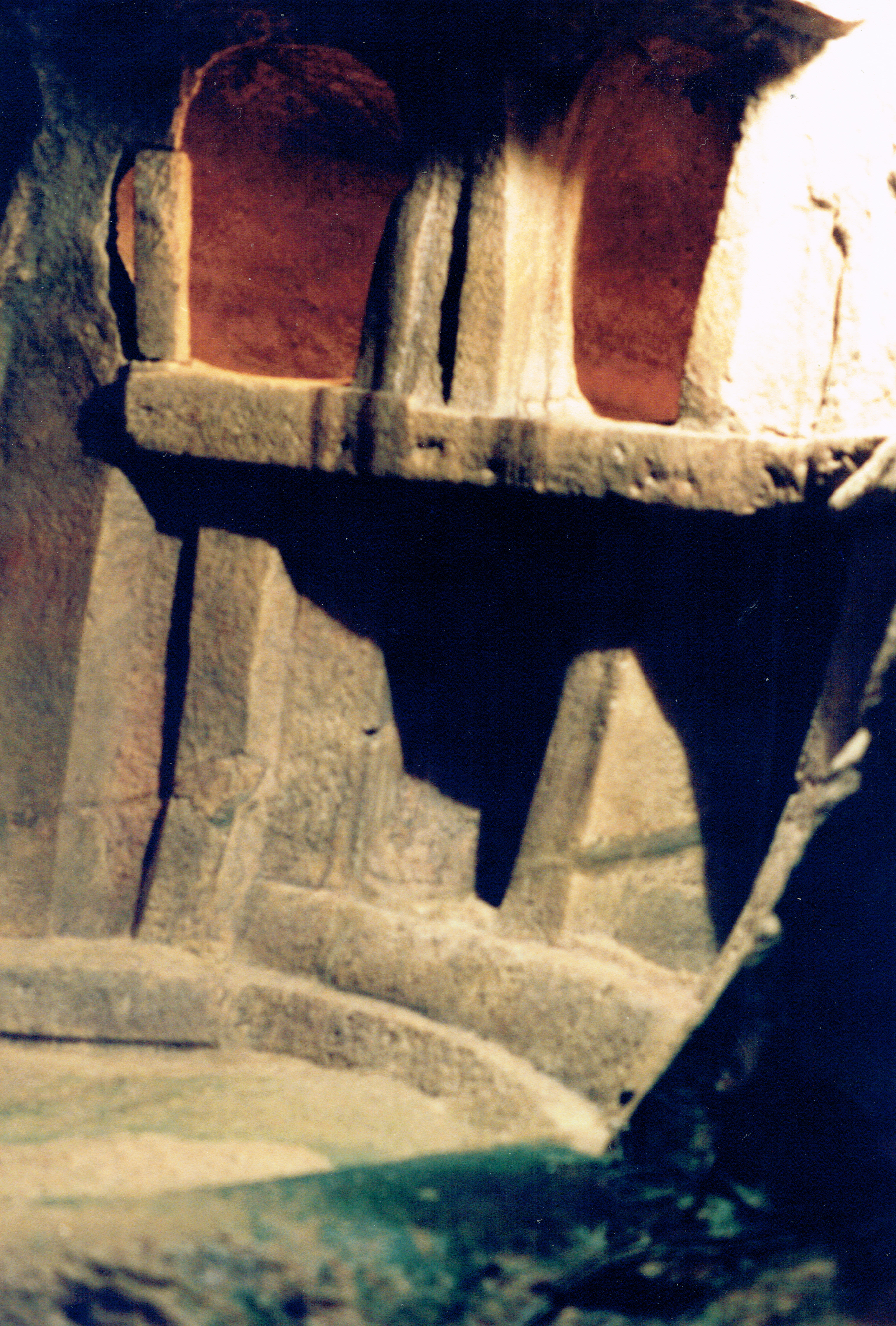 Hypogeum Ħal Saflieni (Malta), the sanctuary chamber Holy of Holies Hypogeum Ħal Saflieni (Malta), posvátná komora Holy of Holies Hypogeum Ħal Saflieni (Malta), das Heiligtum Holy of Holies'